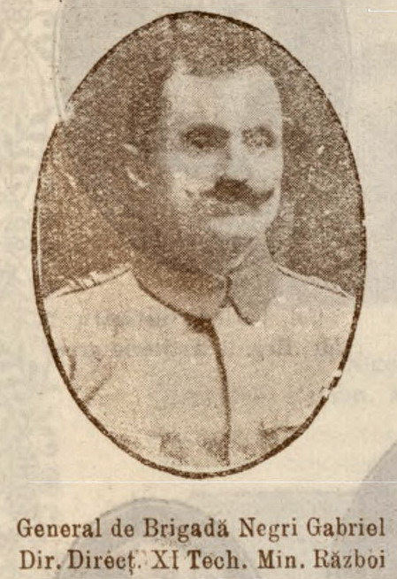 Romanian General Gabriel Negrei - brigade commander during WWIRomână: Generalul Gabriel Negrei - comandant de brigadă în Primul Război Mondial